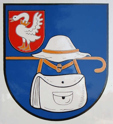 Historical coat of arms of Wandsbek at the Stormarnhaus, the seat of the Hamburg district administration Wandsbek.